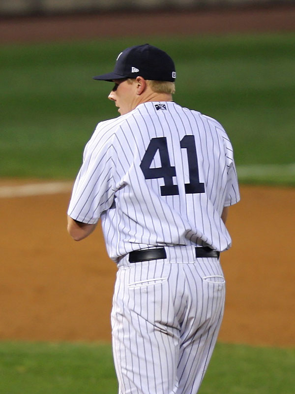 Description Mark Melancon, April 2009, PNC Field, Moosic, PA. Date18 May 2010, 23:00 (UTC)SourceI (BubbaFan (talk)) created this work entirely by myself.AuthorBubbaFan (talk) 23:00, 18 May 2010 . . BubbaFan . . 600×800 (68 KB) Mark Melancon, April 2009, PNC Field, Moosic, PA.